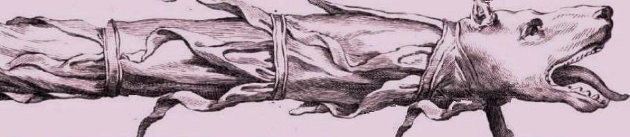 Dacians' standard Draco, when held up into the wind, or above the head of a horseman, is depicted horizontally in the 2nd century AD Trajan column (see File:023_Conrad_Cichorius,_Die_Reliefs_der_Traianssäule,_Tafel_XXIII.jpg) and various reprsentations. Elements head and tail of this file that had been assembled through this file are retouched images from the free license book "Costume des anciens peuples, à l'usage des artistes" Costume of ancient peoples, for the use of artists by Michel-François Dandré-Bardon (1700-1783) printed in Paris, 1765, France, Europe.